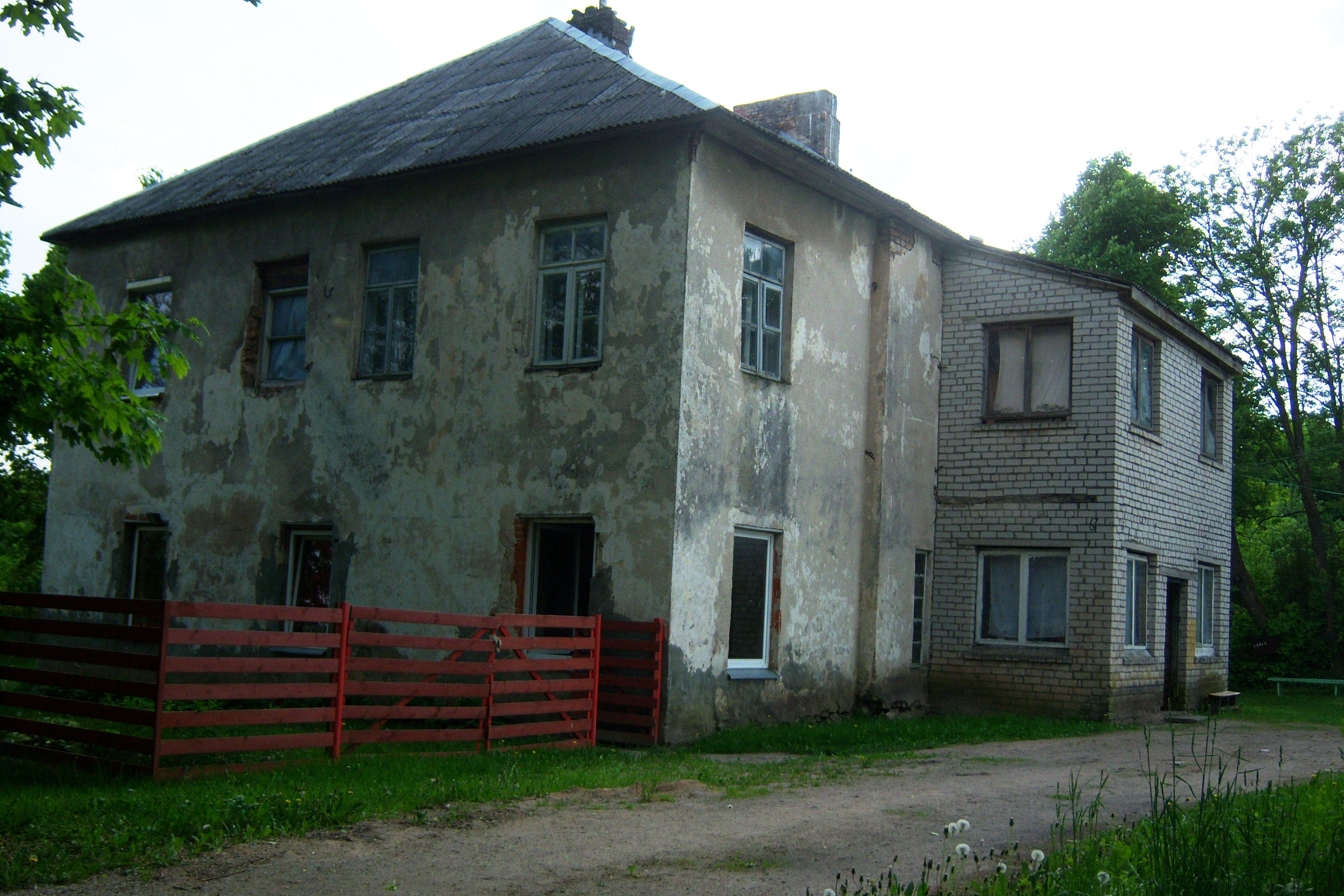 Former manor in Romainiai, Kaunas. Lithuania